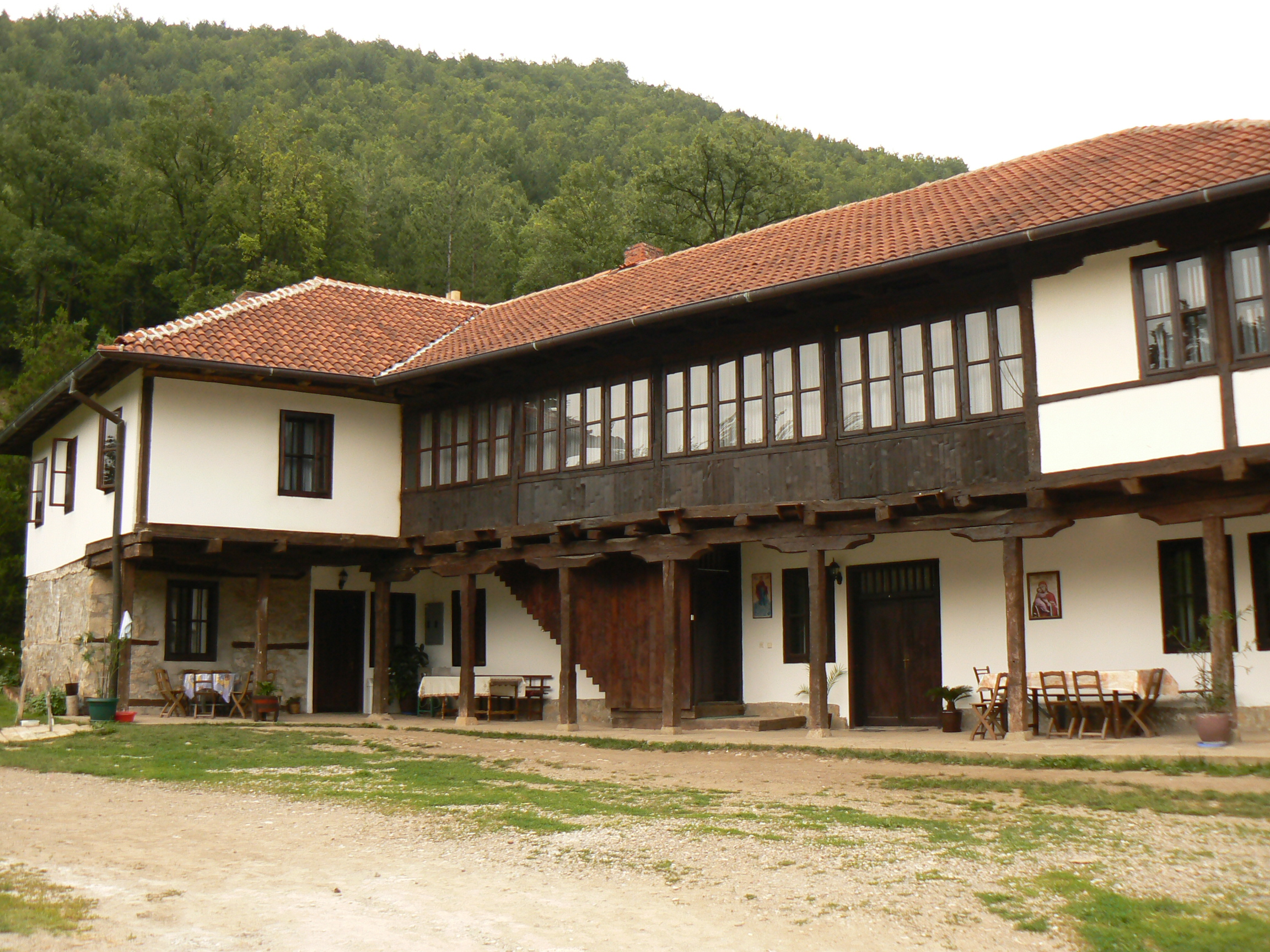 Sukovo monastery, Serbia